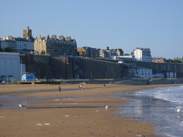 Ramsgate (KENT) sands